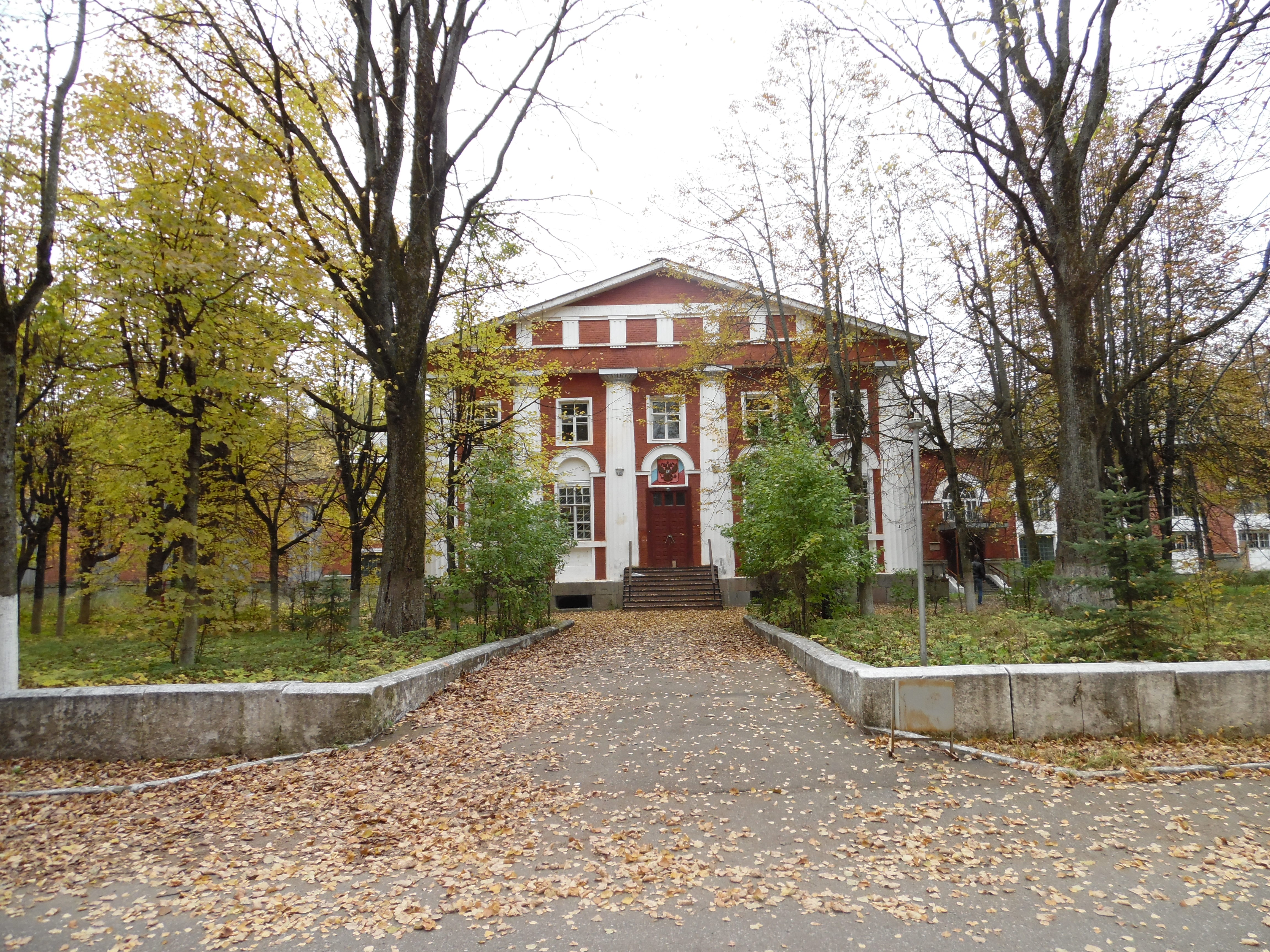 Novoselitsy Novgorod district Novgorod region Main building of garrison